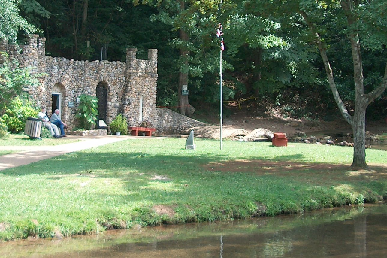 Rolater Park was taken by Cculber007 on August 2006 in Cave Spring, Georgia which was known for famous spring water steam, pre Civil War cave, and others.